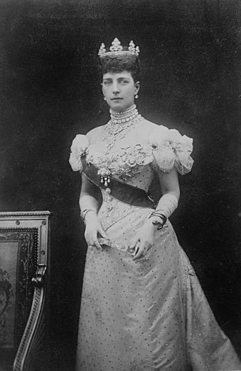 Alexandra of Denmark, Queen Consort to Edward VII of the United Kingdom